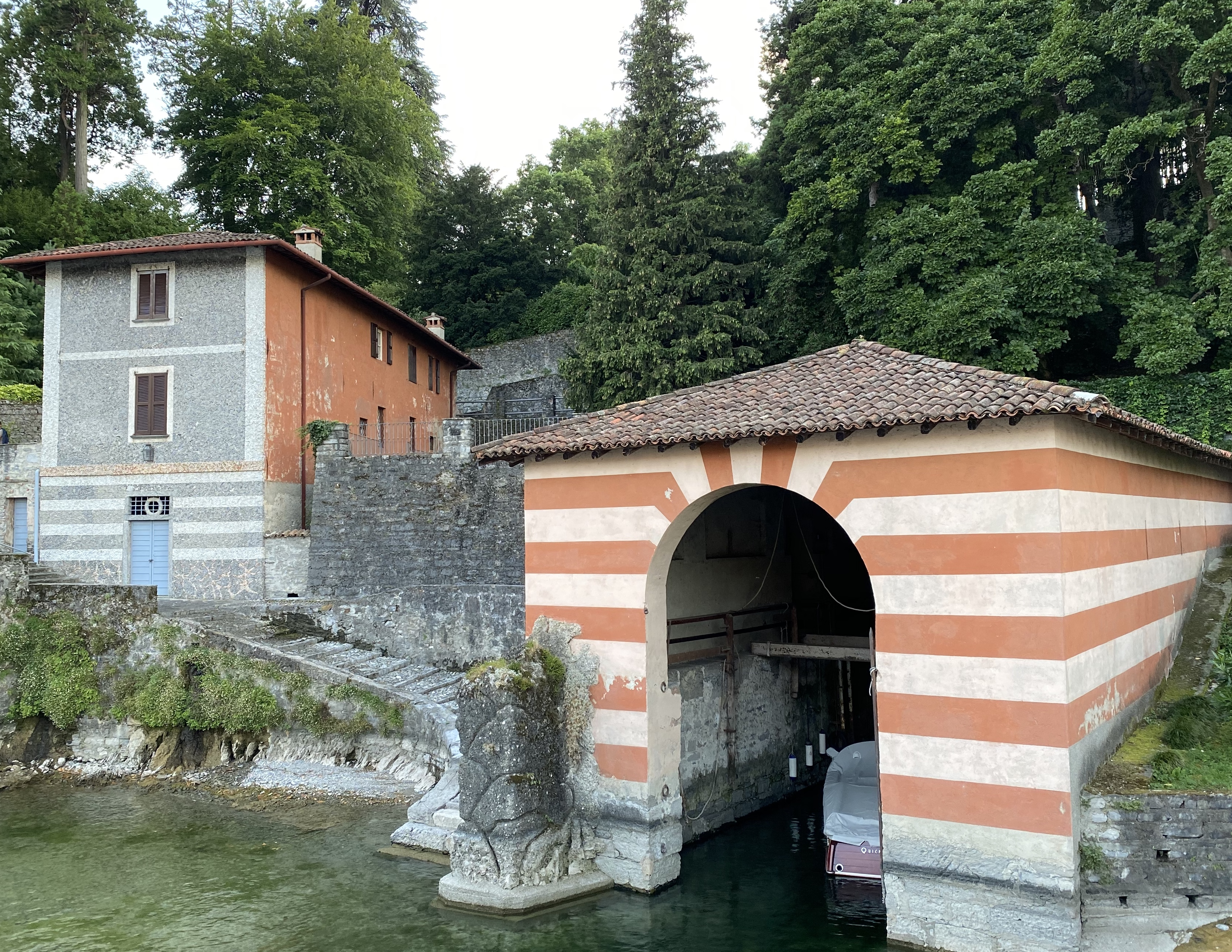 La darsena